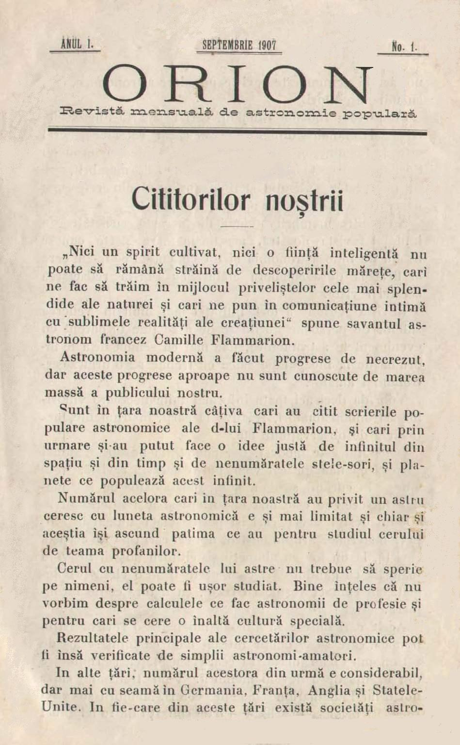 First page of Orion, astronomy magazine, issue no. 1, September 1907, published by Victor Anestin.